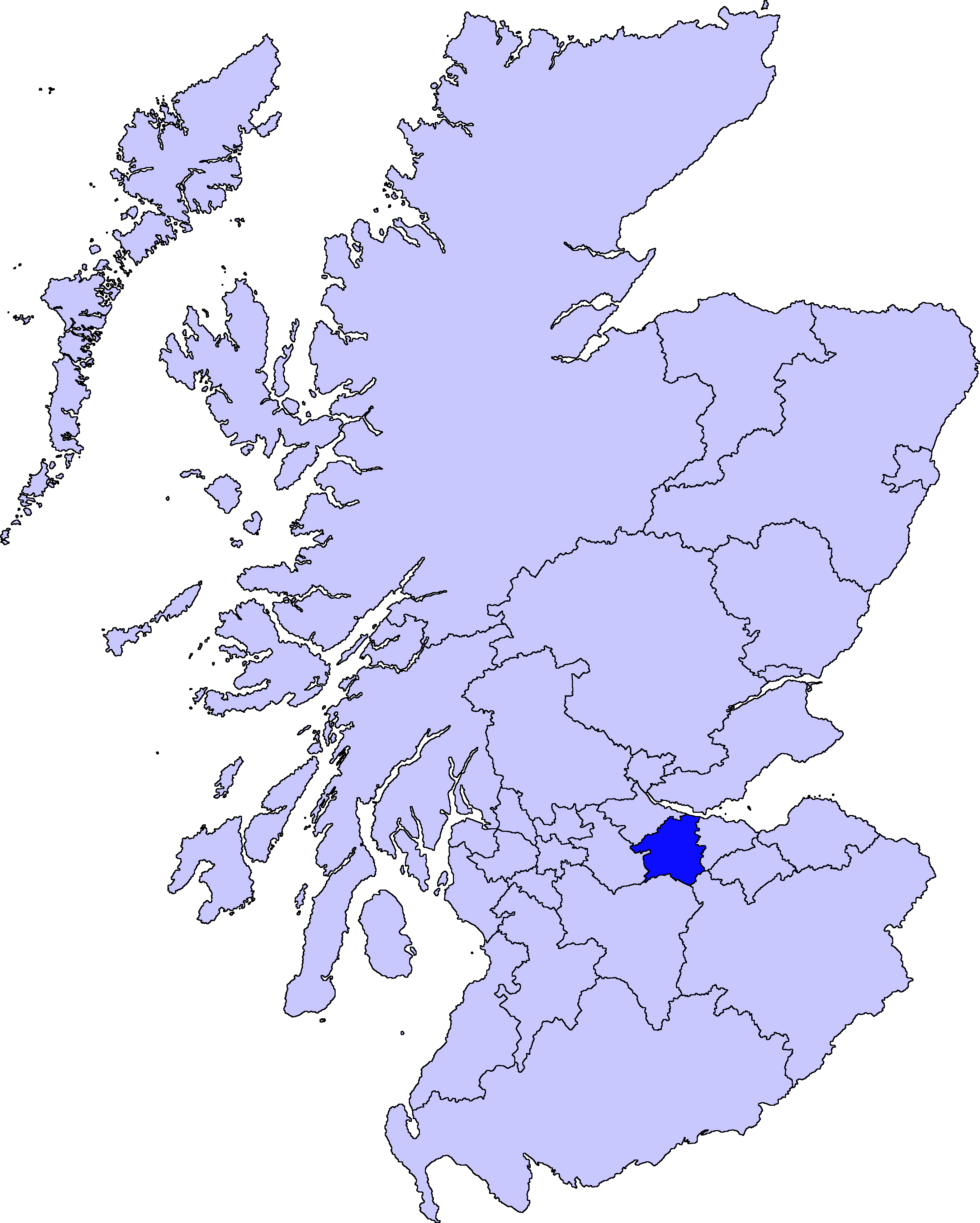 map of West Lothian